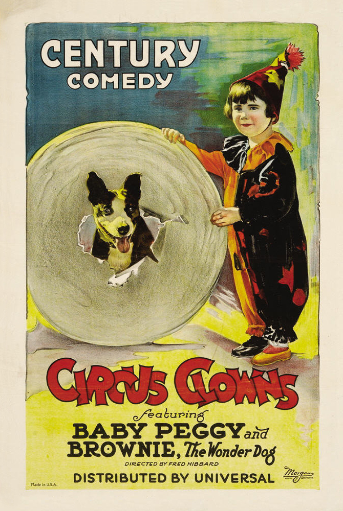 Poster for the American short film Circus Clowns (1922) featuring Baby Peggy and Brownie the dog; directed by Fred Fishback (as Fred Hibbard)